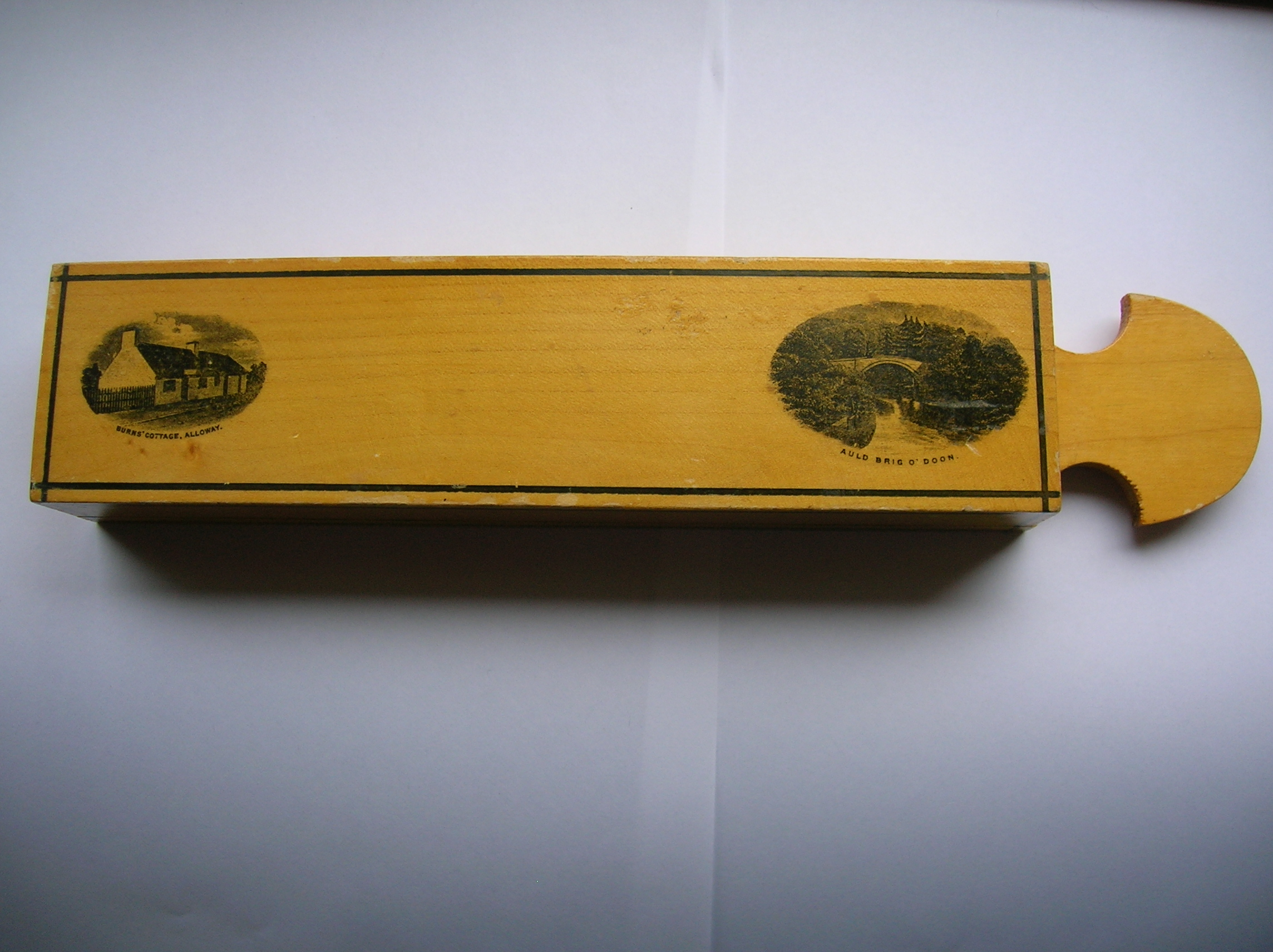 A hone tone or strop case for a Tam O'Shanter Hone Stone, made as Mauchline Ware. The Auld Brig O'Doon and Burns Cottage are the illustrations.